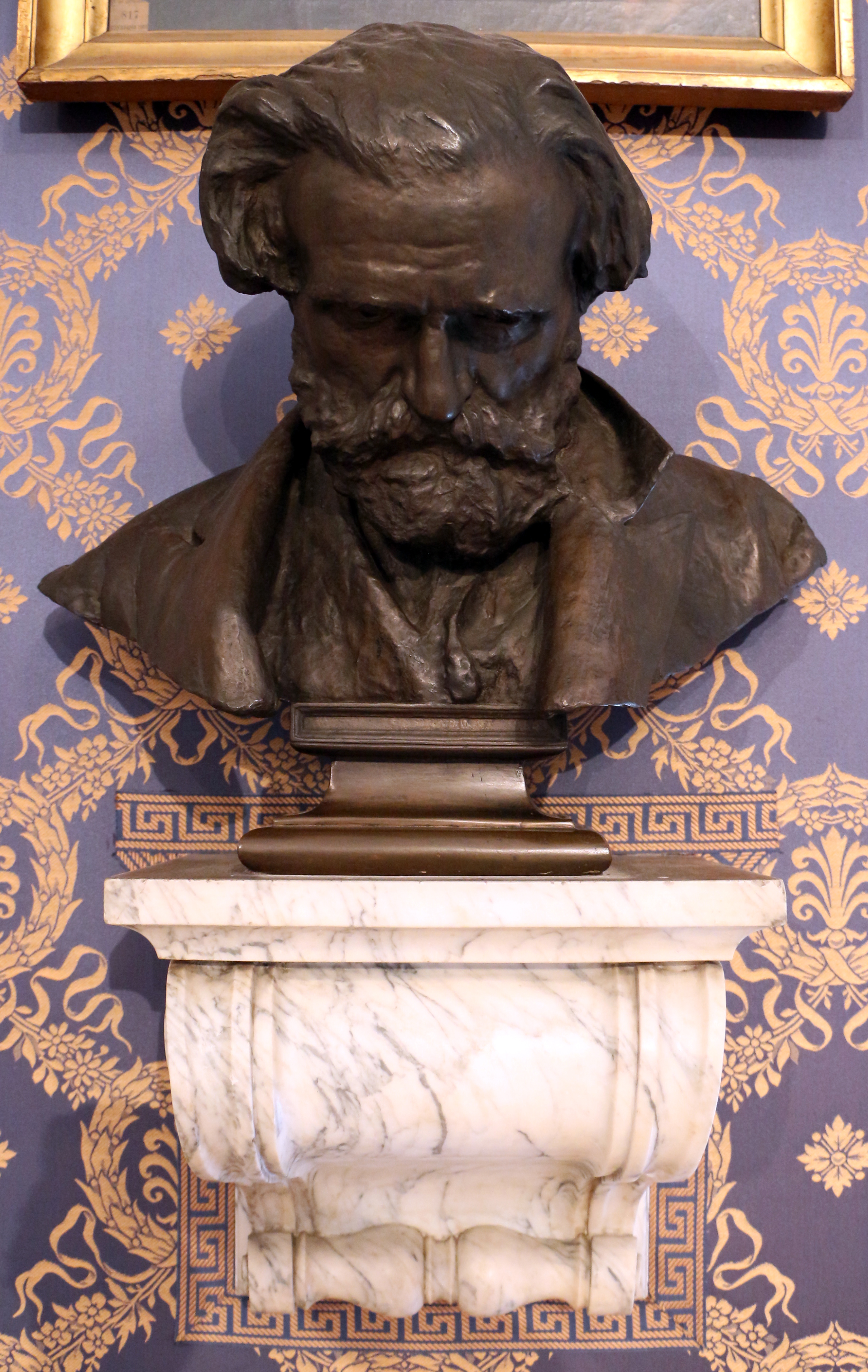 Museo del Teatro alla Scala (Milan)